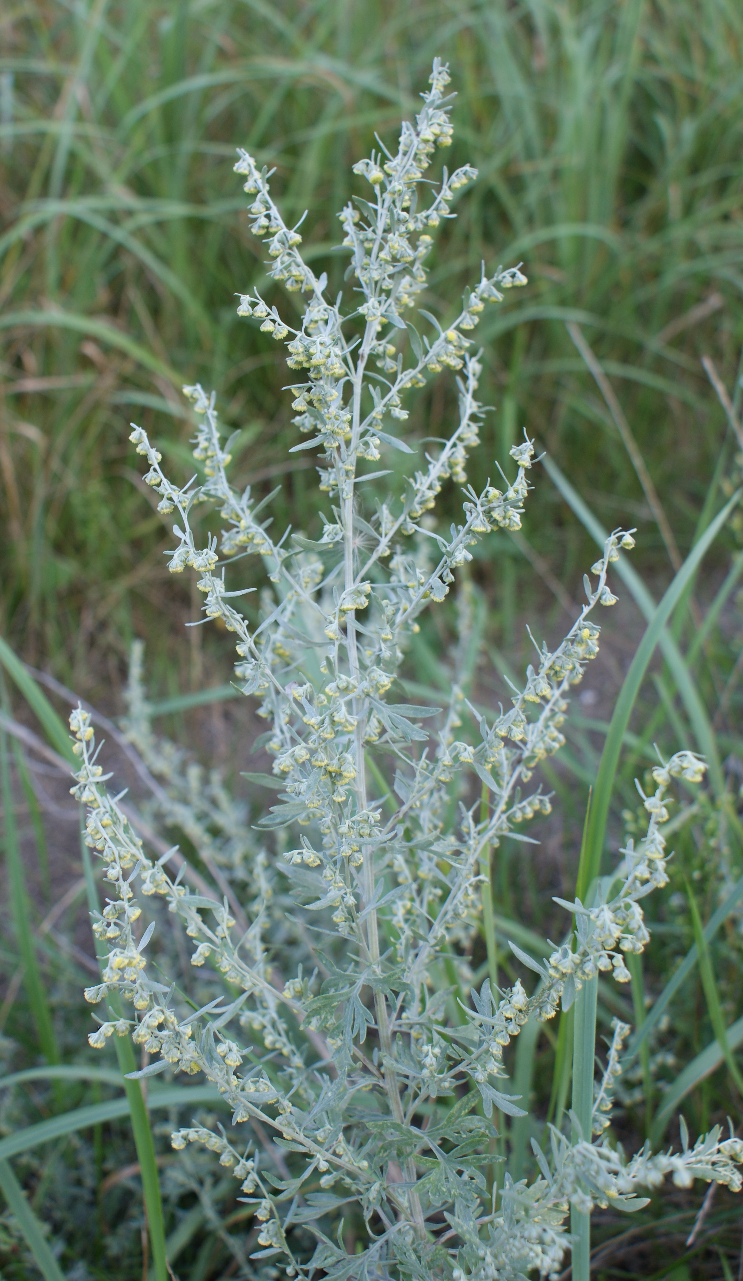 Artemisia absinthium, Szczecin Dąbie (NW Poland)